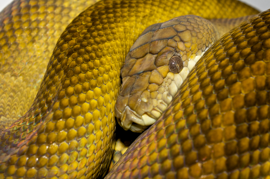 Seram Scrub Python (Morelia clastolepis). (This specimen lives in captivity) Photography by Matt